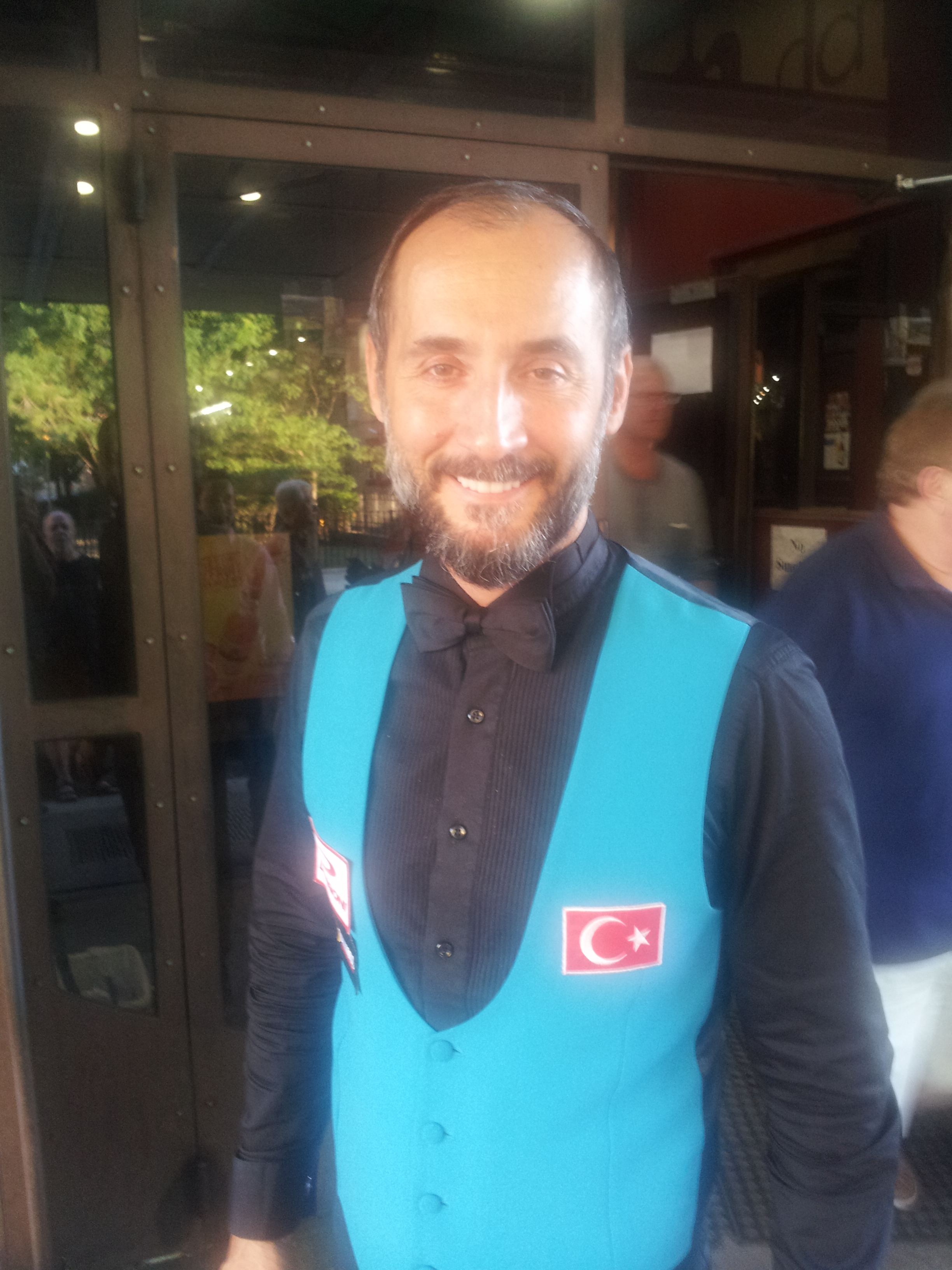 Verhoeven Open 2016. 3-Cushion Tournament at the Carom Café in New York City.